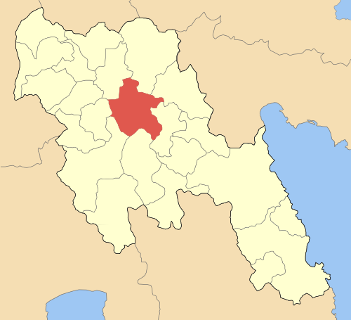 Locator map of Falanthou municipality (Δήμος Φαλάνθου) at Arcadia perfecture, Peloponnissos, Greece.